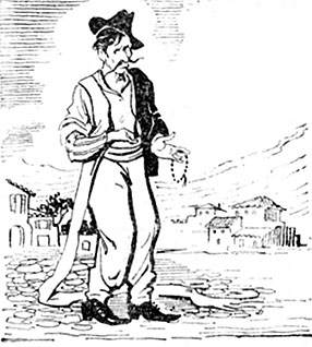 mangas